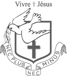 Emblem or seal of Oblate Sisters of Saint Francis of Sales, religious congregation devoted to teaching